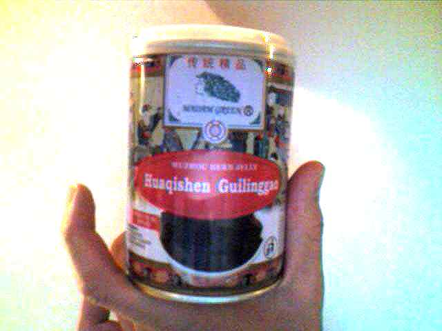 A can of Guilinggao jelly purchased from a local Chinese herbal store.